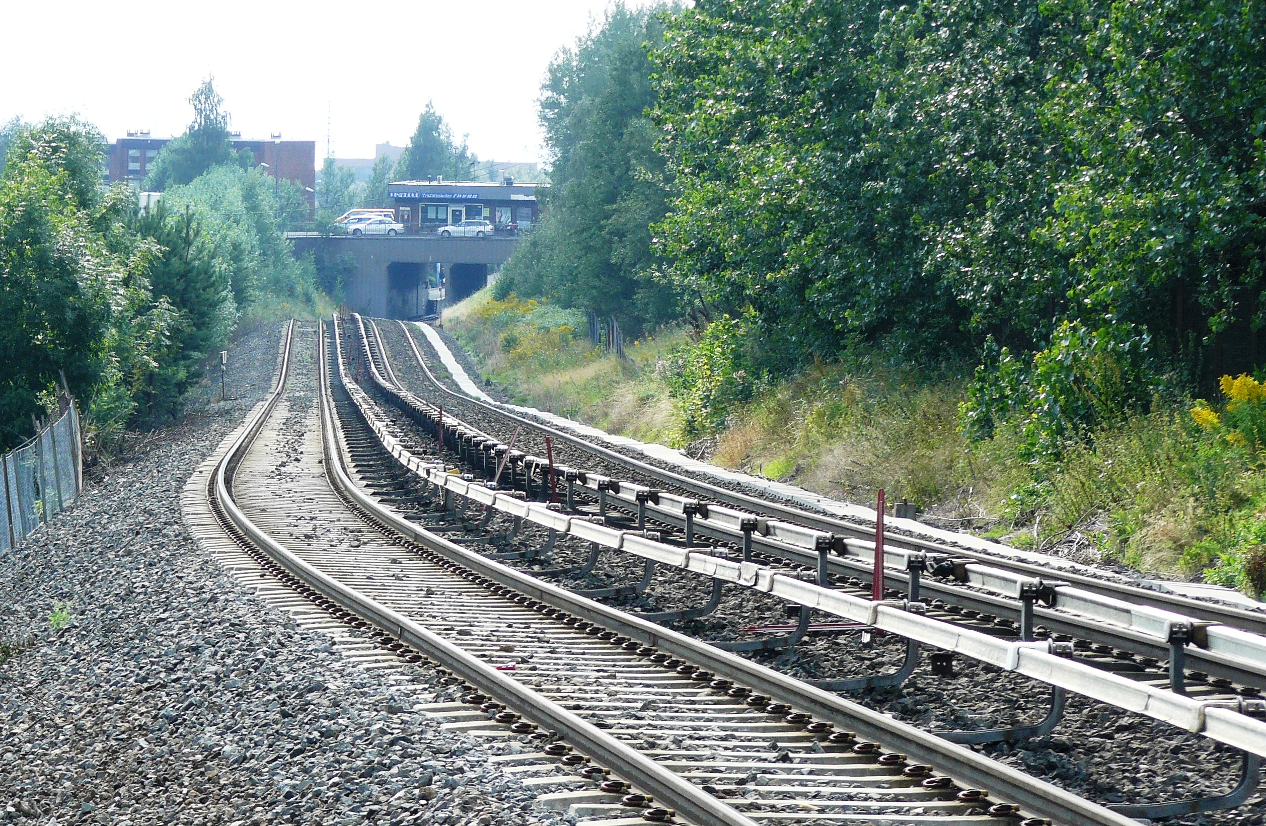 Grorudbanen, Oslo subway from Veitvet towards Linderud